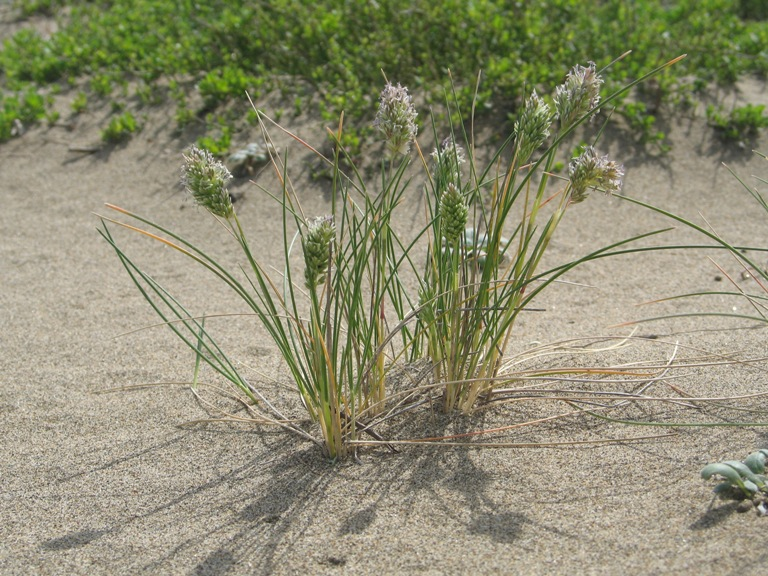 Poa douglasii at Abbotts Lagoon, Point Reyes National Seashore (Marin County, California, US). "Photos copyrighted as, "Robert Steers/NPS," are public domain and can be used without requesting permission but please give credit."